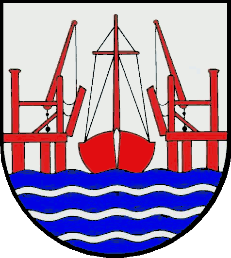 Coat of arms of the municipality Heiligenstedten in Schleswig-Holstein, Germany.